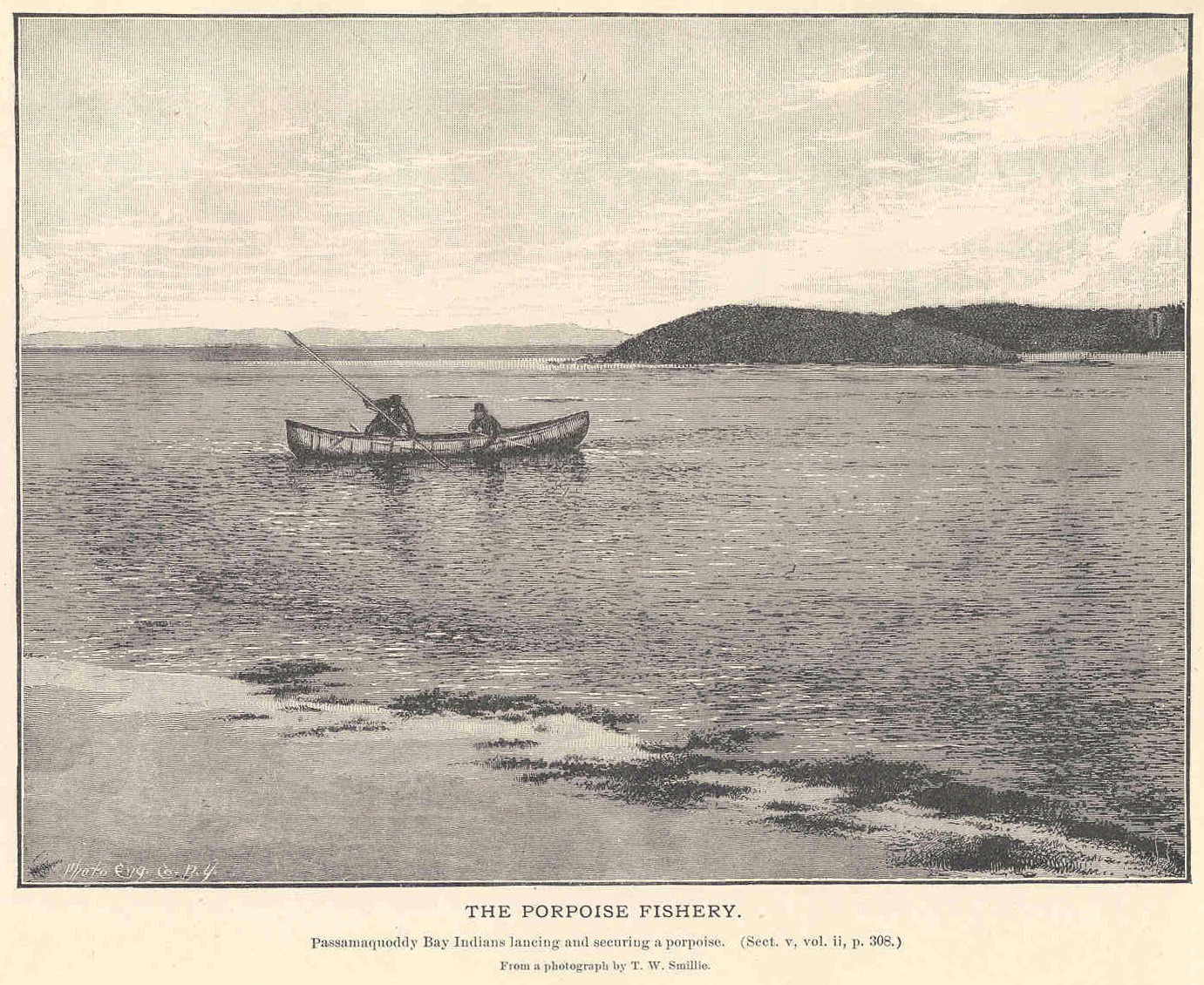 Porpoise Fishery Passamaquoddy Bay Indians lancing and securing a porpoise Subject: Porpoises, Porpoise fisheries, Indians of North America--Fishing Geographic Subject: United States--Maine--Passamaquoddy Bay, Canada--New Brunswick--Passamaquoddy Bay Tag: Traditional Fisheries, Aquatic Mammals